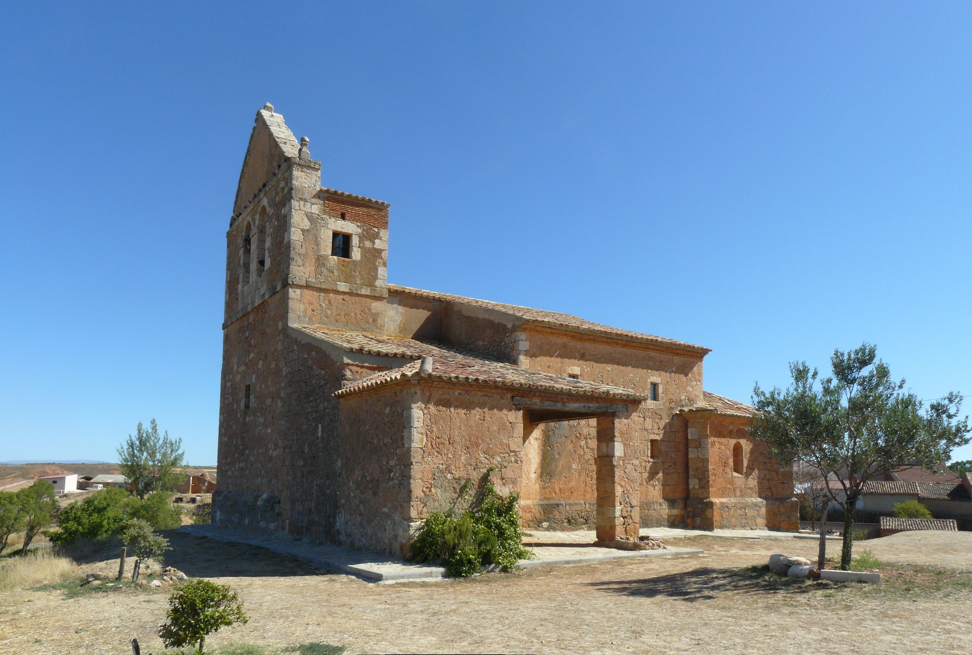 Church of San Juan Bautista (Saint John the Baptist), Matanza de Soria, Soria (Spain).